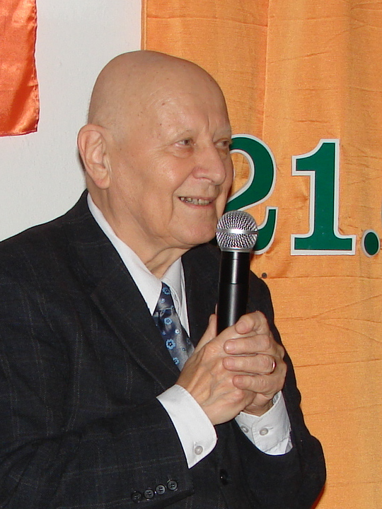 Ivo Vasiljev's speech at the Buddhist celebration in České Budějovice, Czech Republic.